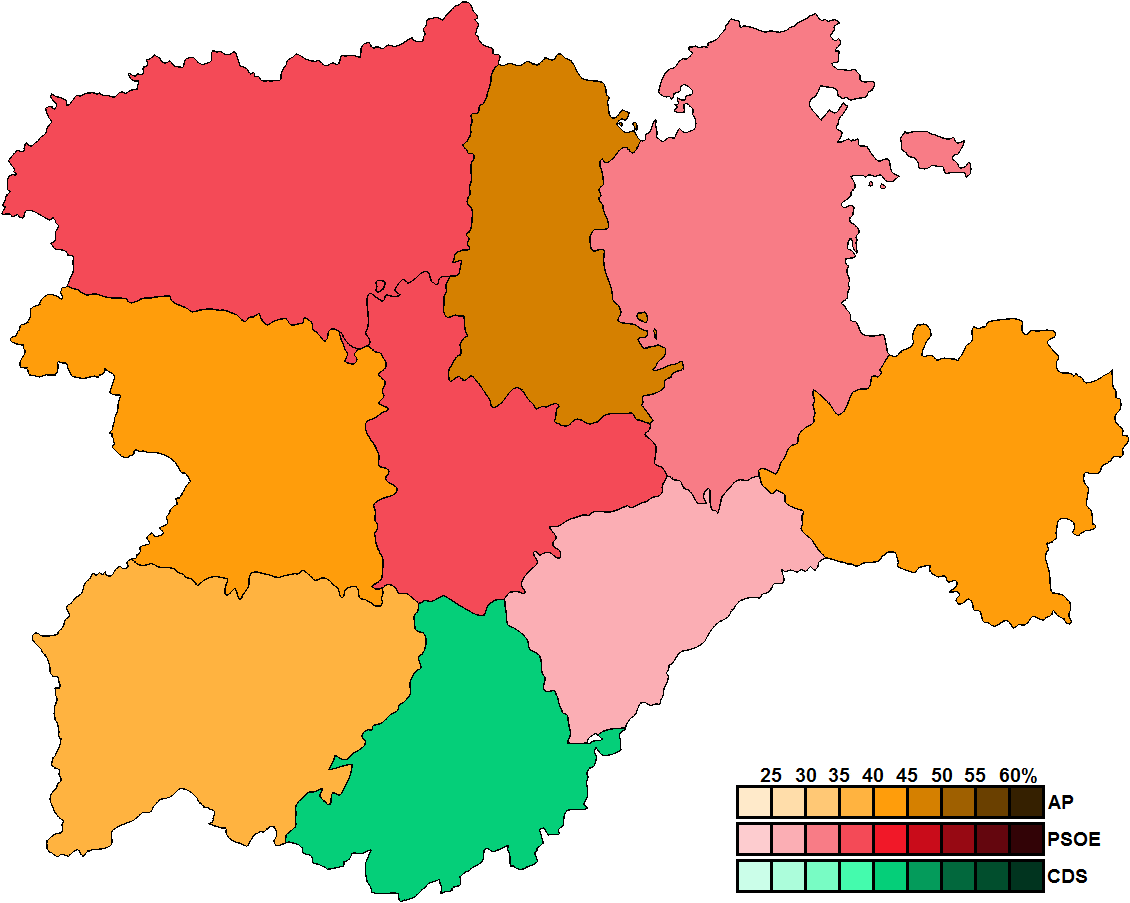 Provincial results for the 1987 Castilian-Leonese regional election.